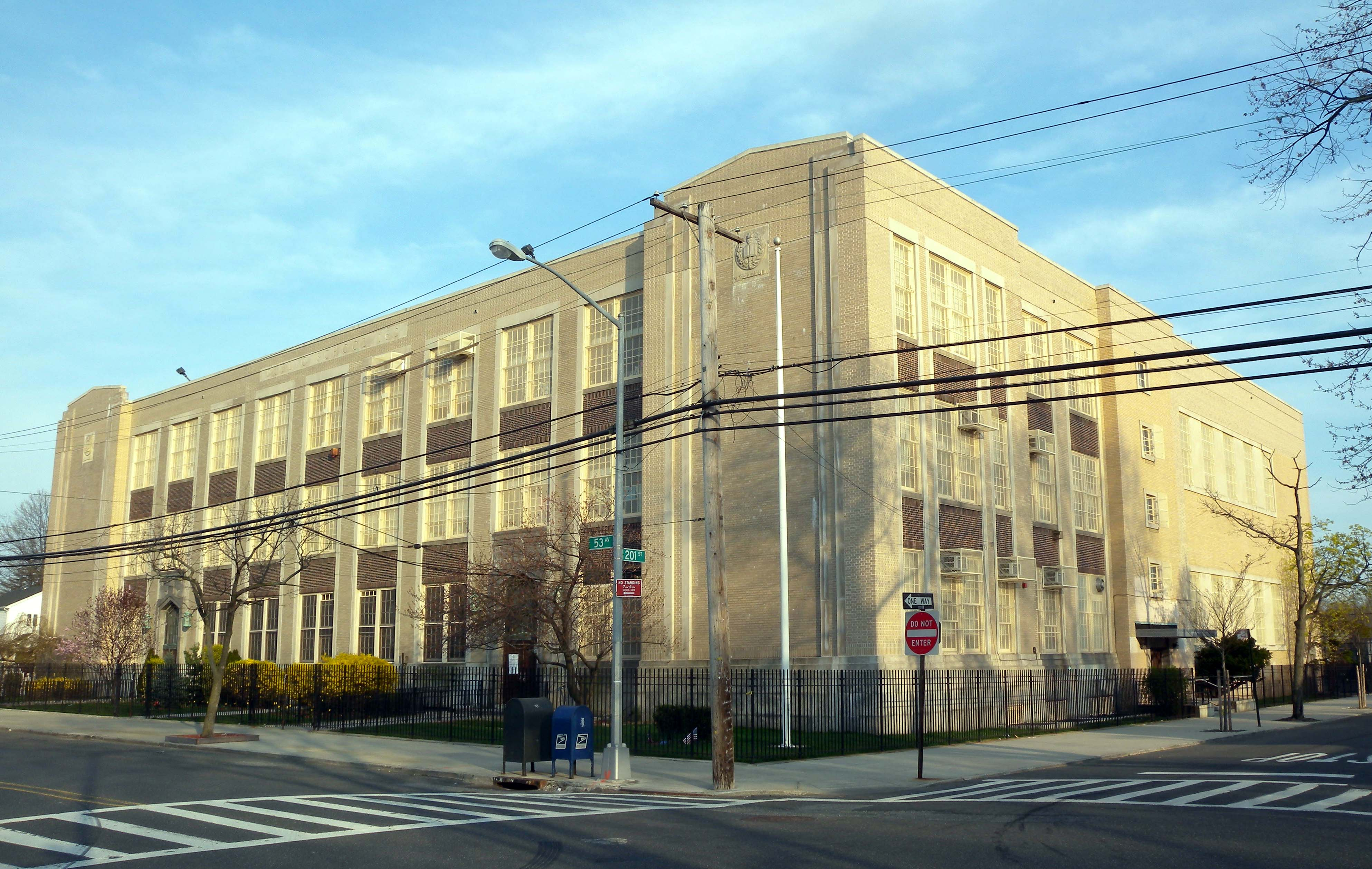 Looking southeast across 201st Street and 53rd Avenue at PS 162, the John Golden School, on a mostly cloudy late afternoon.